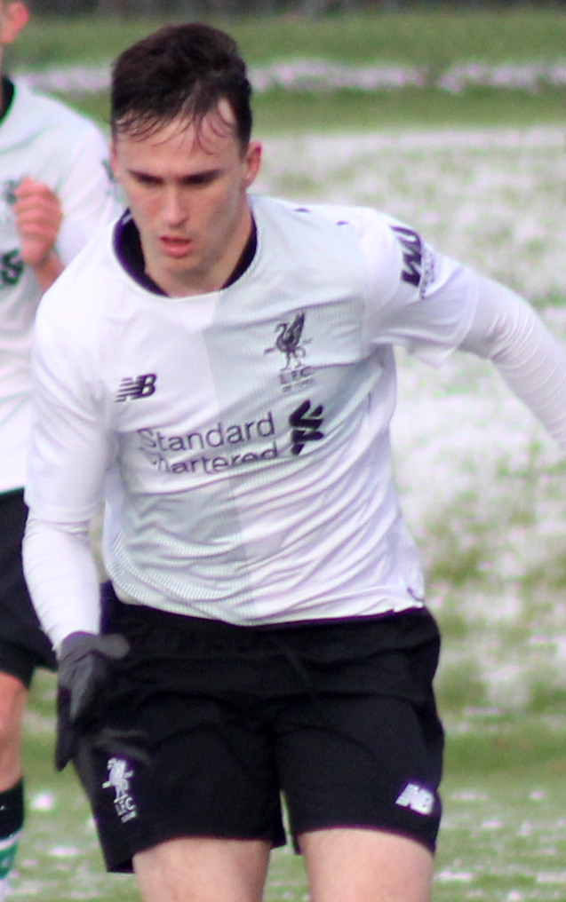 Liam Millar (left) of Liverpool and Tahith Chong (right) of Manchester United during the U18 Premier League at The Cliff, Salford, England on Saturday 9 December 2017.